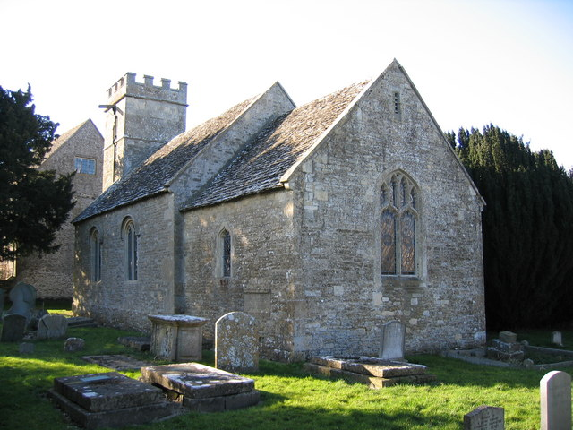 St Michael and All Angels parish church, Poole Keynes, Gloucestershire, seen from the southeast